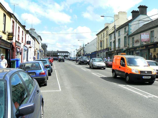 Main street Edenderry Looking north-east.